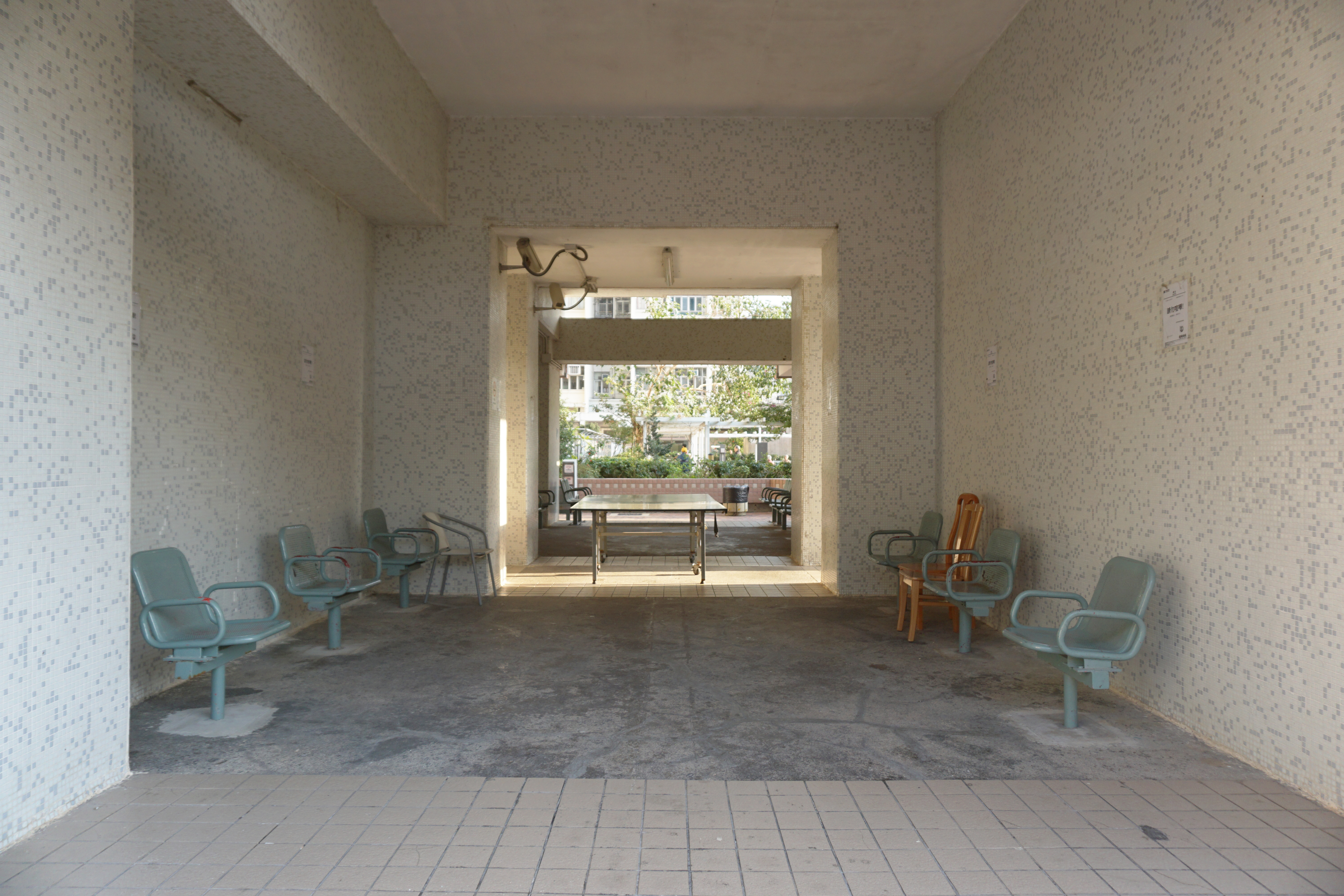 Choi Fai Estate in Ngau Chi Wan, Hong Kong.